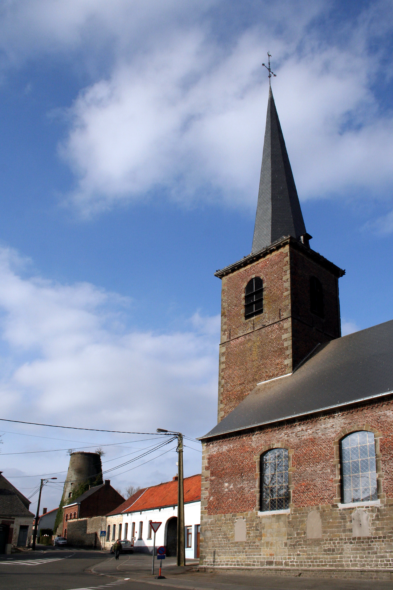 Ville-Pommerœul (Belgium), the neighbourhood of the church and the old wind mill.